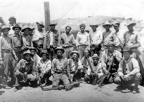 Photo from the newspaper "Nogales Herald" dated July 20, 1922 showing an American posse after capturing the Mexican bandits Manuel Martinez and Placidio Silvas (middle of back row) who killed or wounded five people at or around Ruby, Arizona in 1921 and 1922.